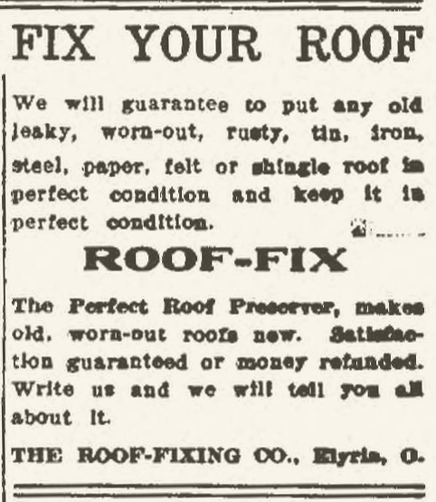 Advertisement for "Roof-Fix" a restorative paint designed for roofs. Ads for this product were written by Sherwood Anderson while he worked for the United Factories Company (ca. 1906-1907) and his own Anderson Manufacturing Co. (also Anderson Paint Company and American Merchants Company) until 1913.